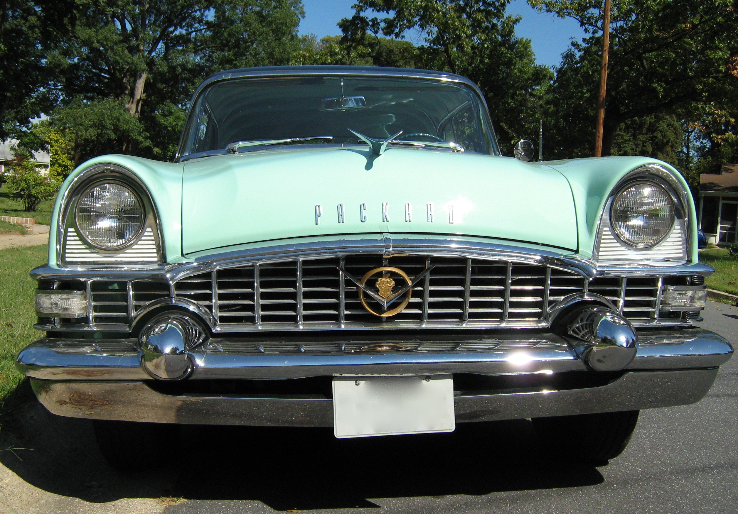 1955 Packard 400 two-door hardtop MD head on view